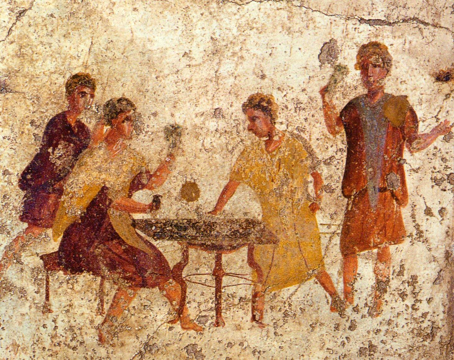 Dice players. Roman fresco from the Osteria della Via di Mercurio (VI 10,1.19, room b) in Pompeii.